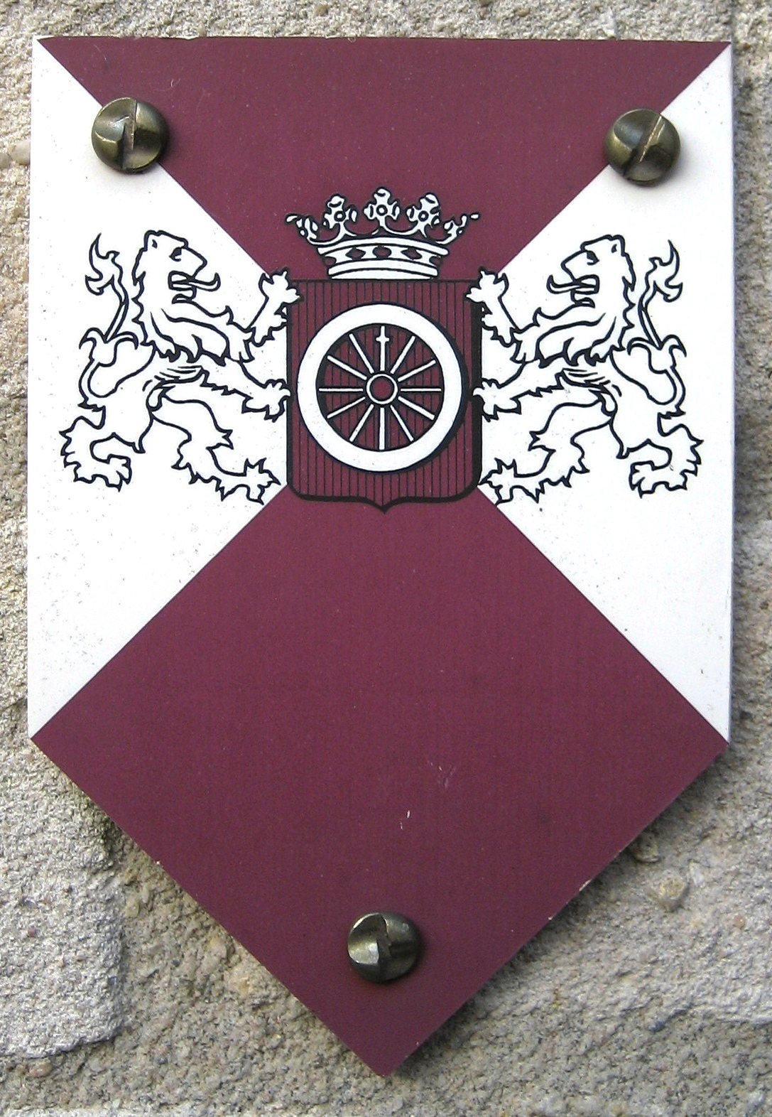 Shield for a Municipality monument (In this case of the city Wageningen)